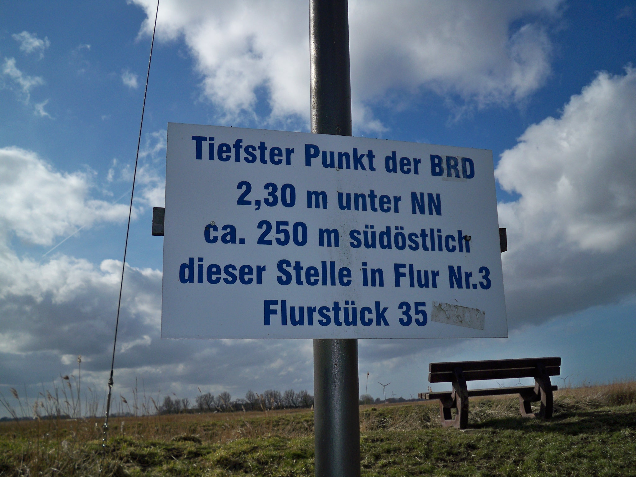 Sign to "Deepest point of Germany", but in fact it is the seconddeepest one